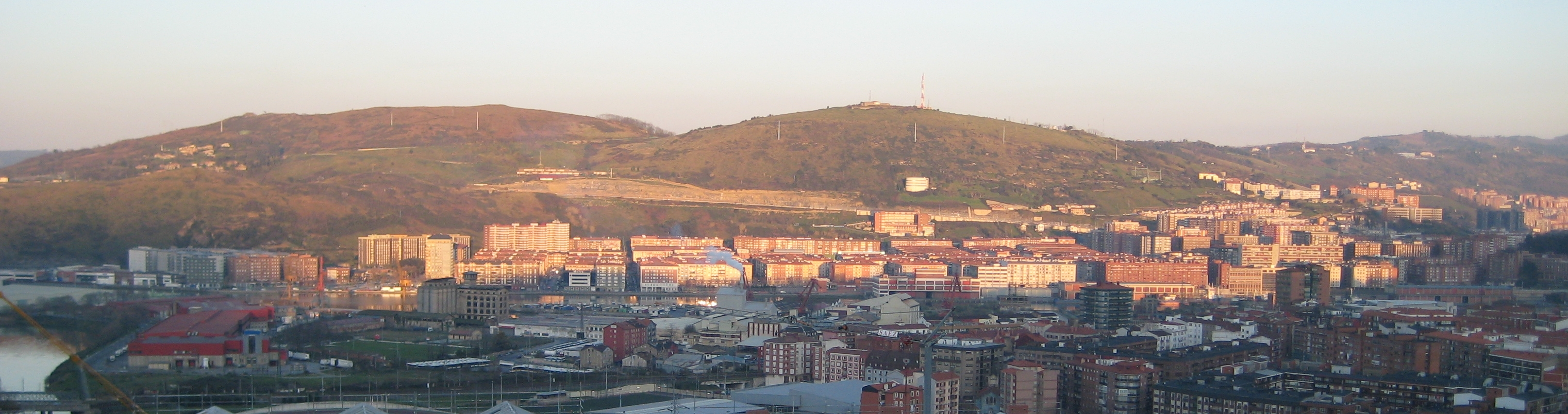 Zorrotza and San Ignazio, in Bilbao, as seen from the road from Cruces to Santa Águeda, in Barakaldo